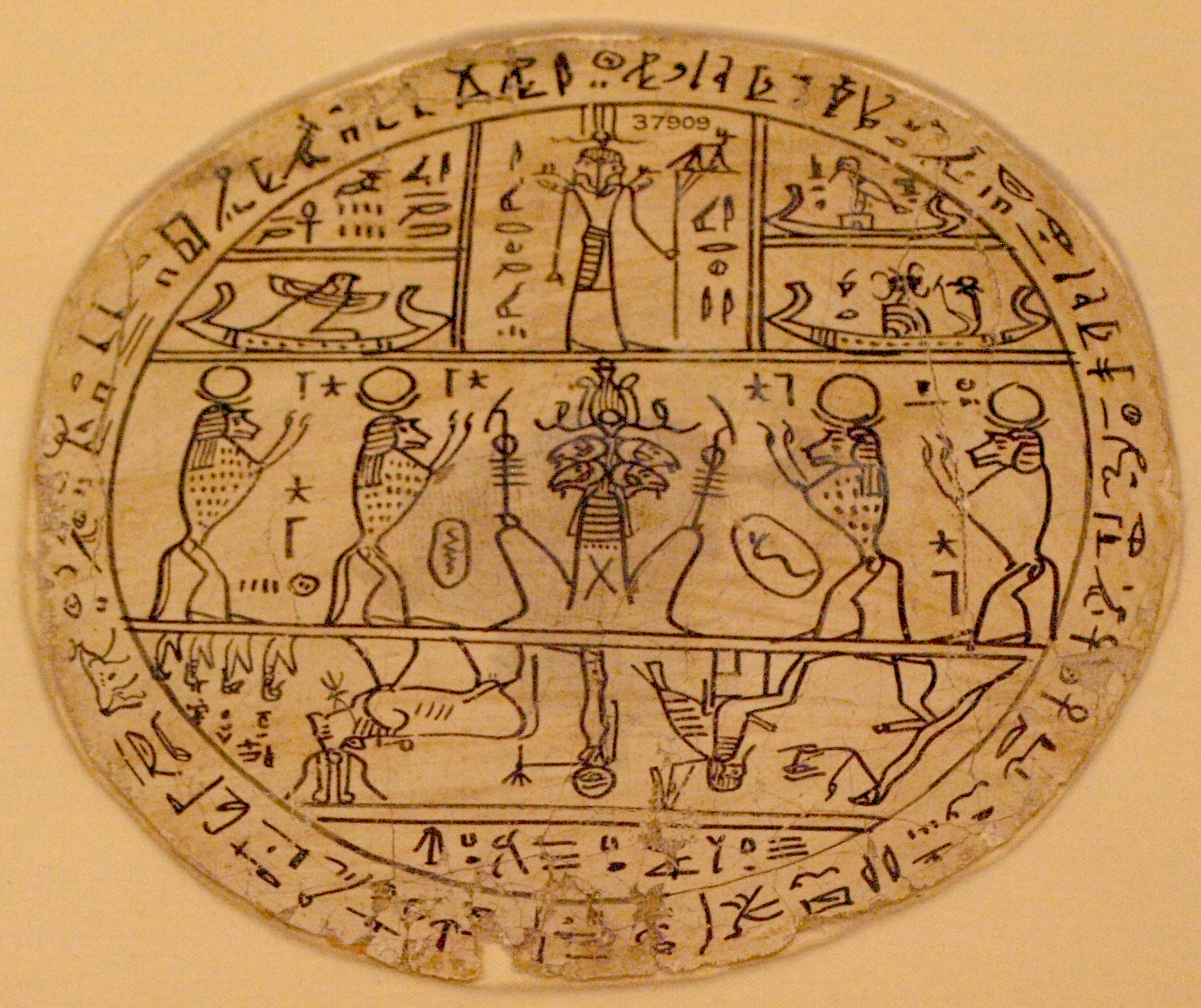 A hypocephalus (Greek υποκέφαλος, meaning "under the head") is a small disc-shaped object that was placed under the head of a deceased person in Ancient Egypt. It was believed to magically protect the deceased, providing "life-giving fire" to the head and body, and making the deceased divine. This hypocephalus is inscribed with Chapter 162 of the Book of the Dead, and depicts a Hathor-cow in front of the four sons of Horus, baboons paying obeisance to the four-headed Ram of Mendes, and barques.